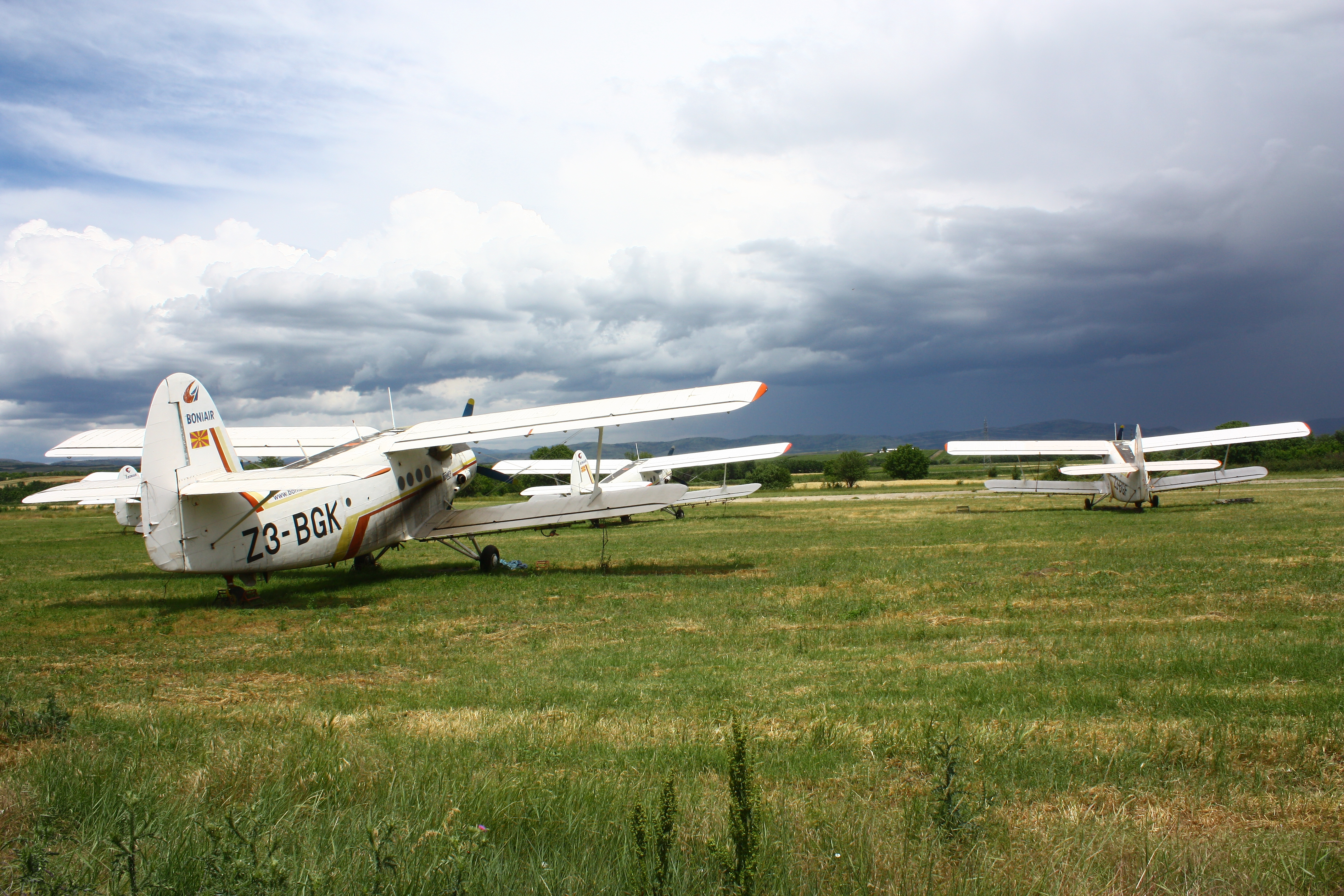 Suševo Sport Airport near Štip, Macedonia